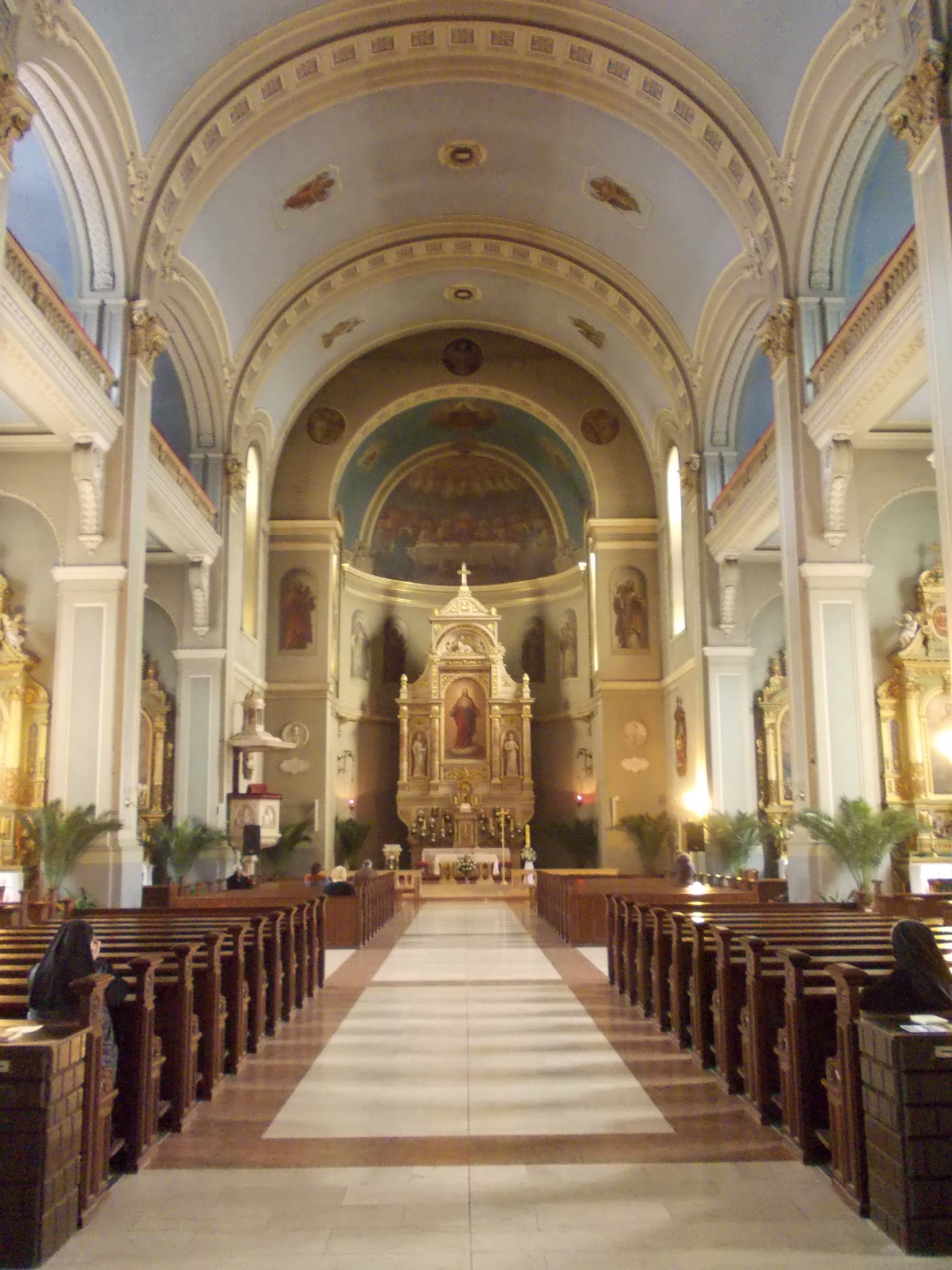 Sacred Heart Basilica, Zagreb